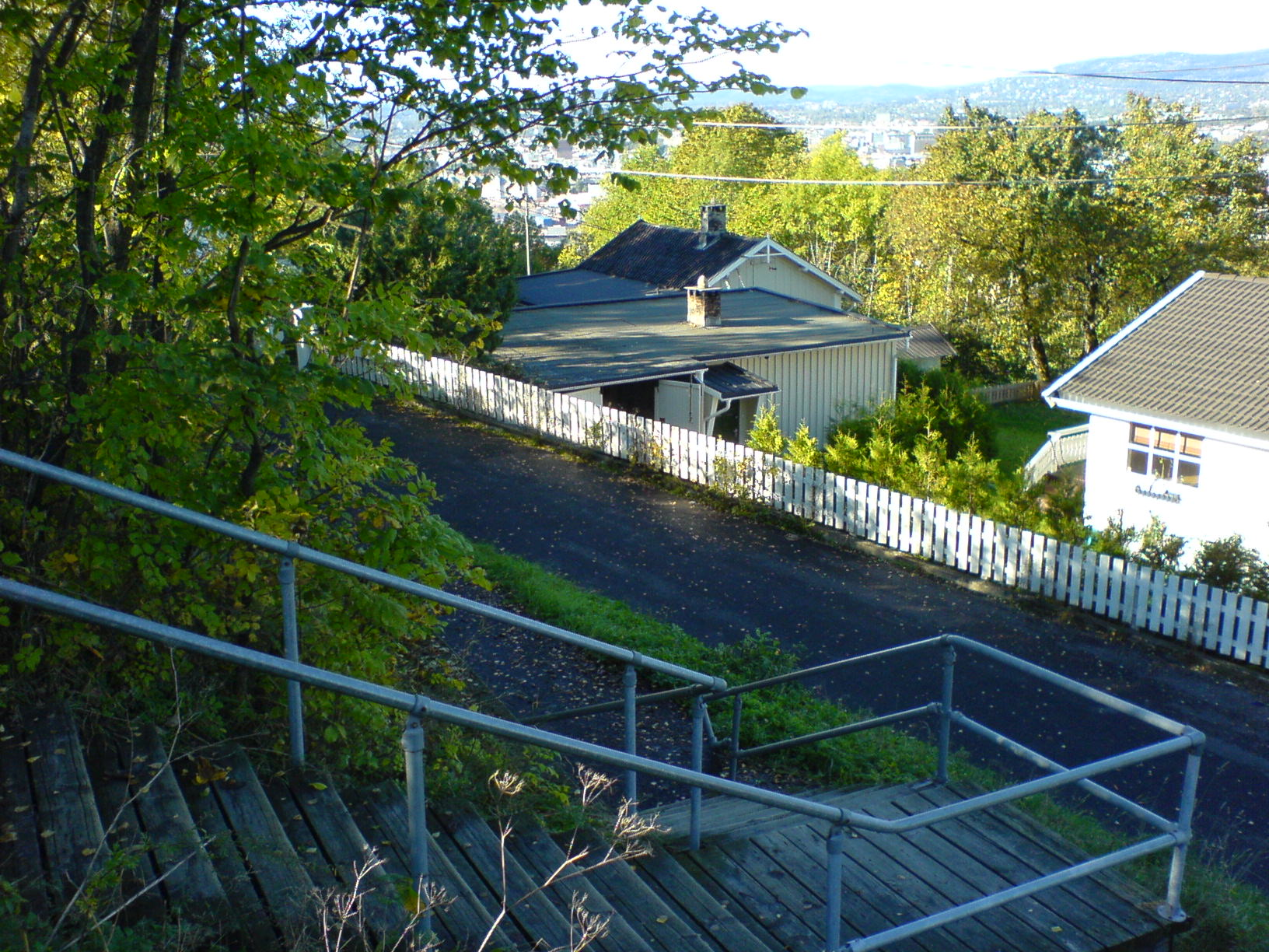 The Street Ekebergstien located in Norway in the Capital Oslo (Nordstrand/Ekeberg).